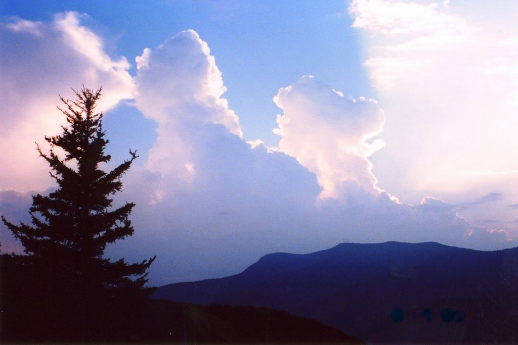 Thunderstorm over the Black Mountains